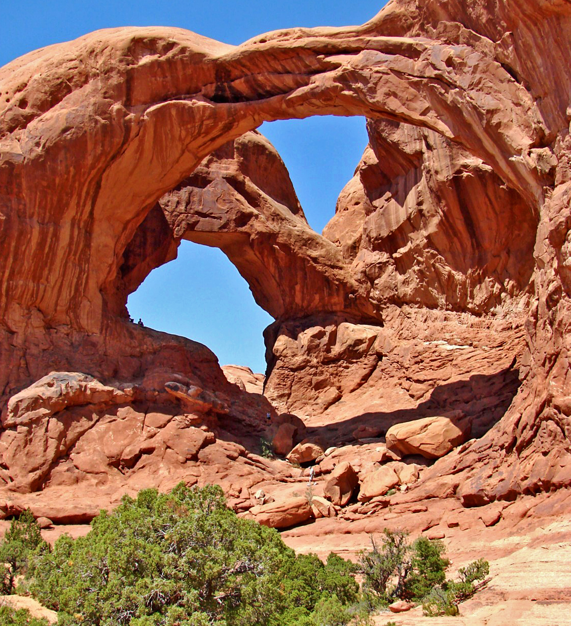 (1 in a multiple picture album) For some reason most people talk about Delicate Arch as their favorite, but Double Arch was mine. It would be amazing to see an arch to large, and here you see two of them. From this angle one looks like it is inside the other. Look very carefully and you'll see some people. Then you'll have a proper perspective as to the grandeur of these formations.